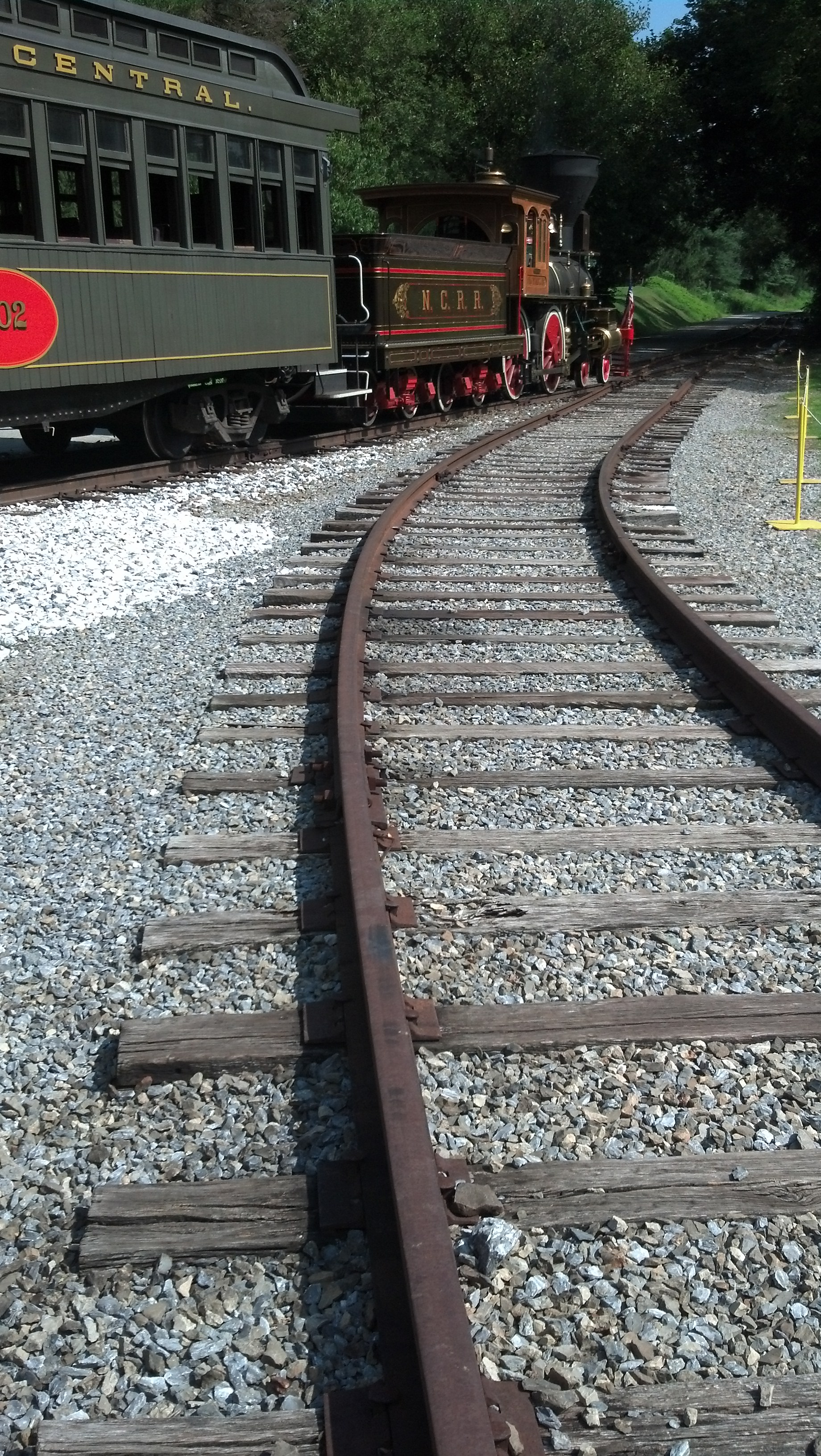 Steam into History's engine and coal car (uses recycled oil) at Hanover Junction, Pennsylvania. View of train from long distance and long view of tracks.